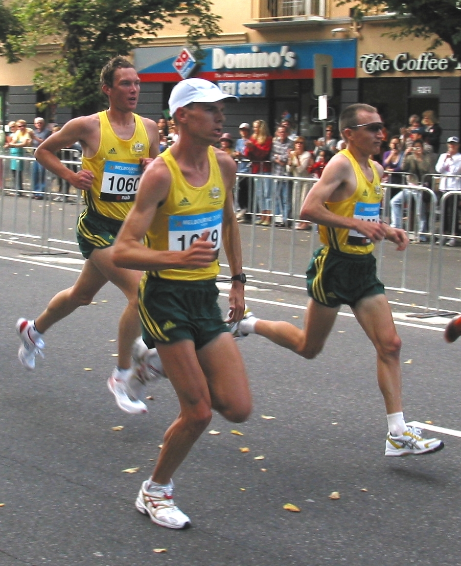 Event: 2006 Commonwealth Games Men's Marathon Location: Grattan Street, Carlton (Melbourne) Date: March 19, 2006 Runners pictured (right to left): 1051 Andrew Letherby (finished 5th) 1079 Scott Westcott (finished 4th) 1060 Shane Nankervis (finished 7th) Photograph by Melburnian